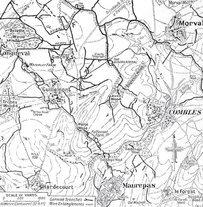 Relief map showing German defensive lines from Delville Wood to Maurepas and Morval, July-September 1916 (Interweb search for author failed to identify draughtsman)